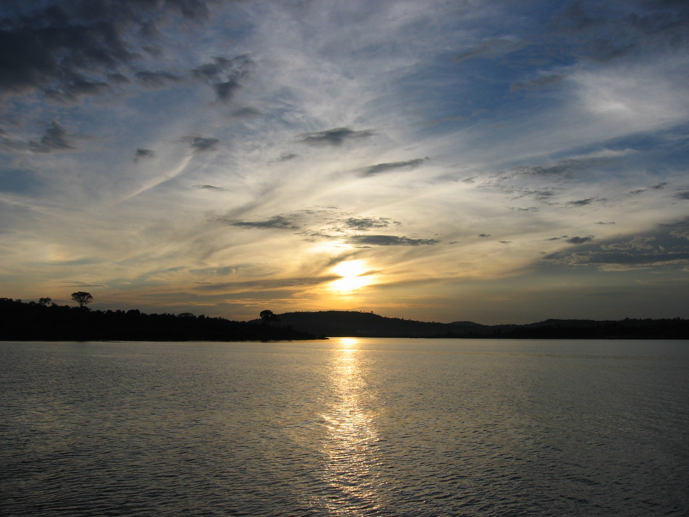 Sunset on the Victoria lake - Uganda